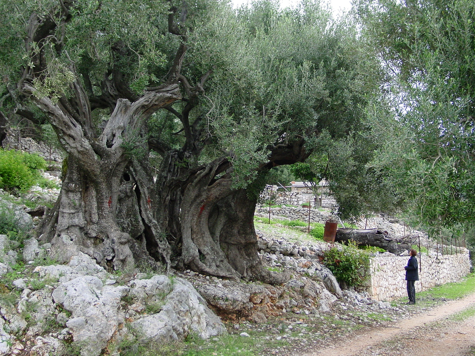 Olive tree on Ithaca, Greece, that is claimed to be at least 1500 years old. Photo by Rien Post, june 2006.